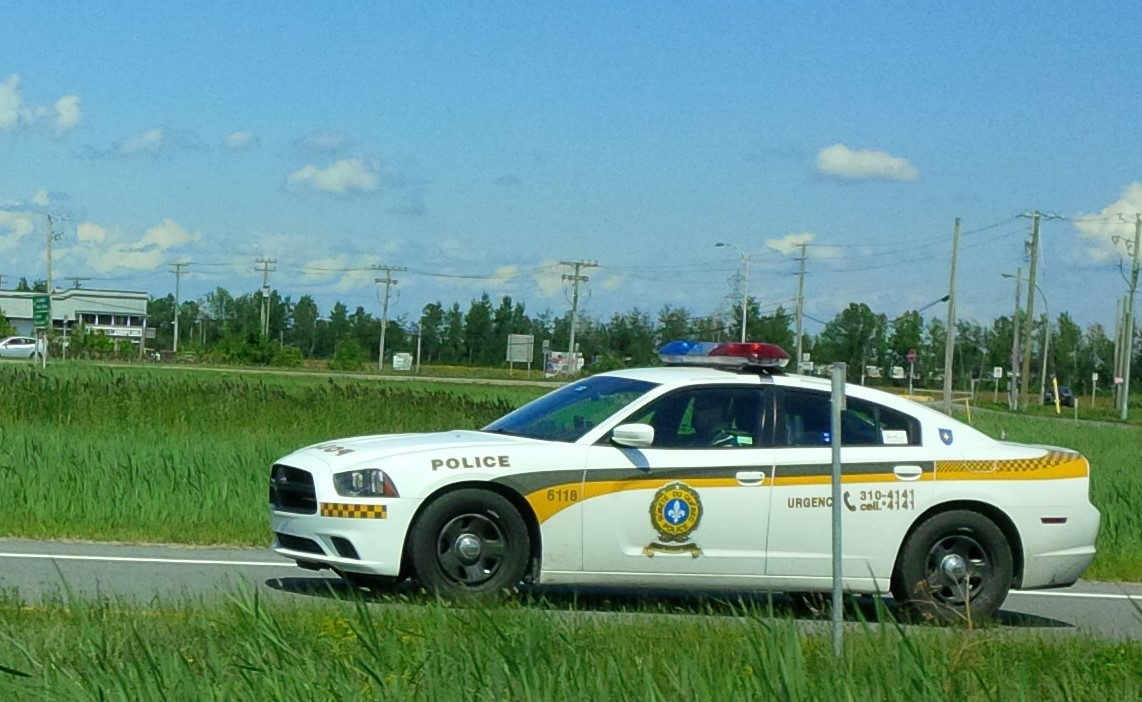 A Sûreté du Québec cruiser with the old colour scheme